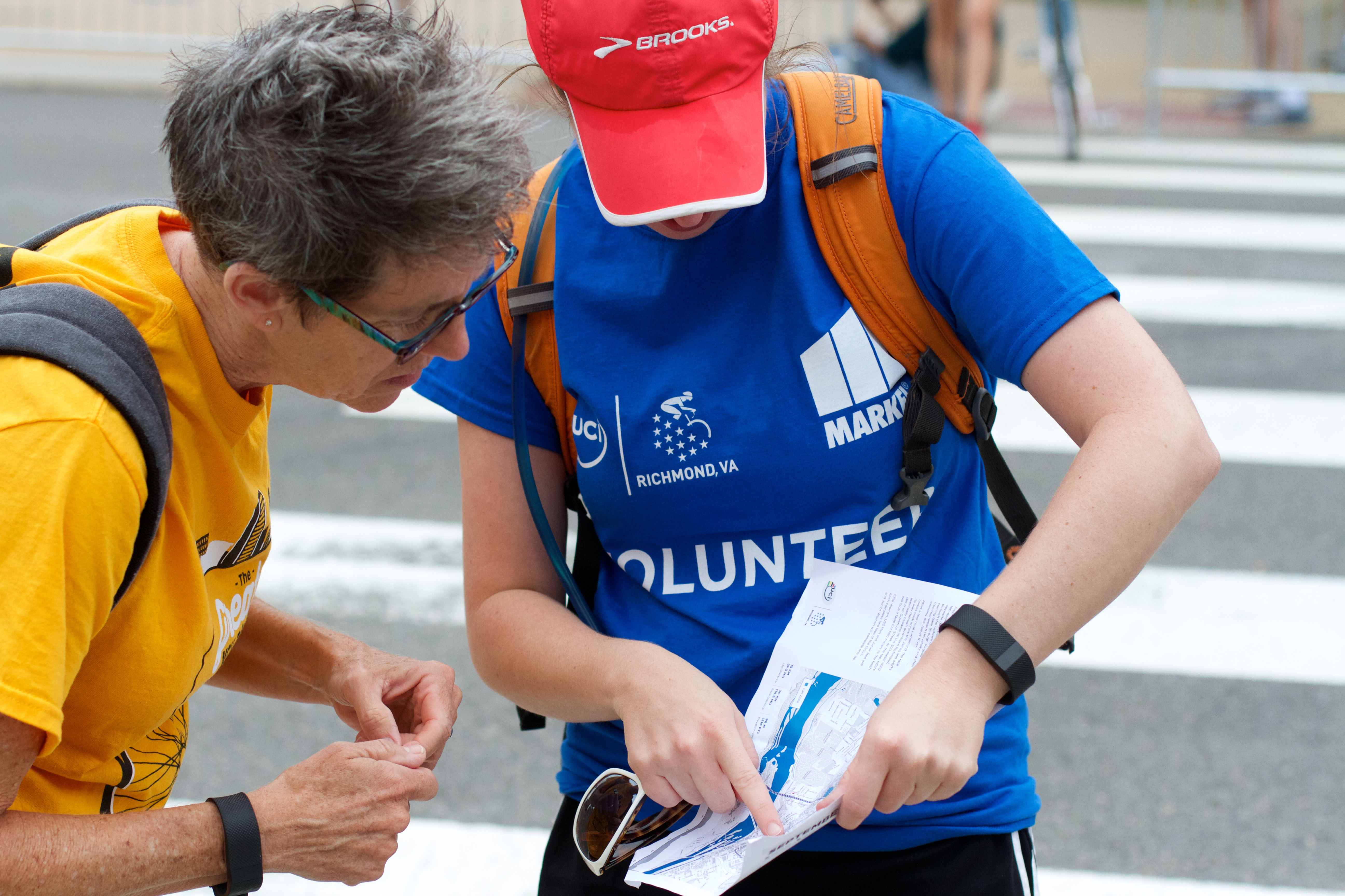 Shelli Getting Directions 2015 UCI Road World Championships, in Richmond, United States, Volenteer